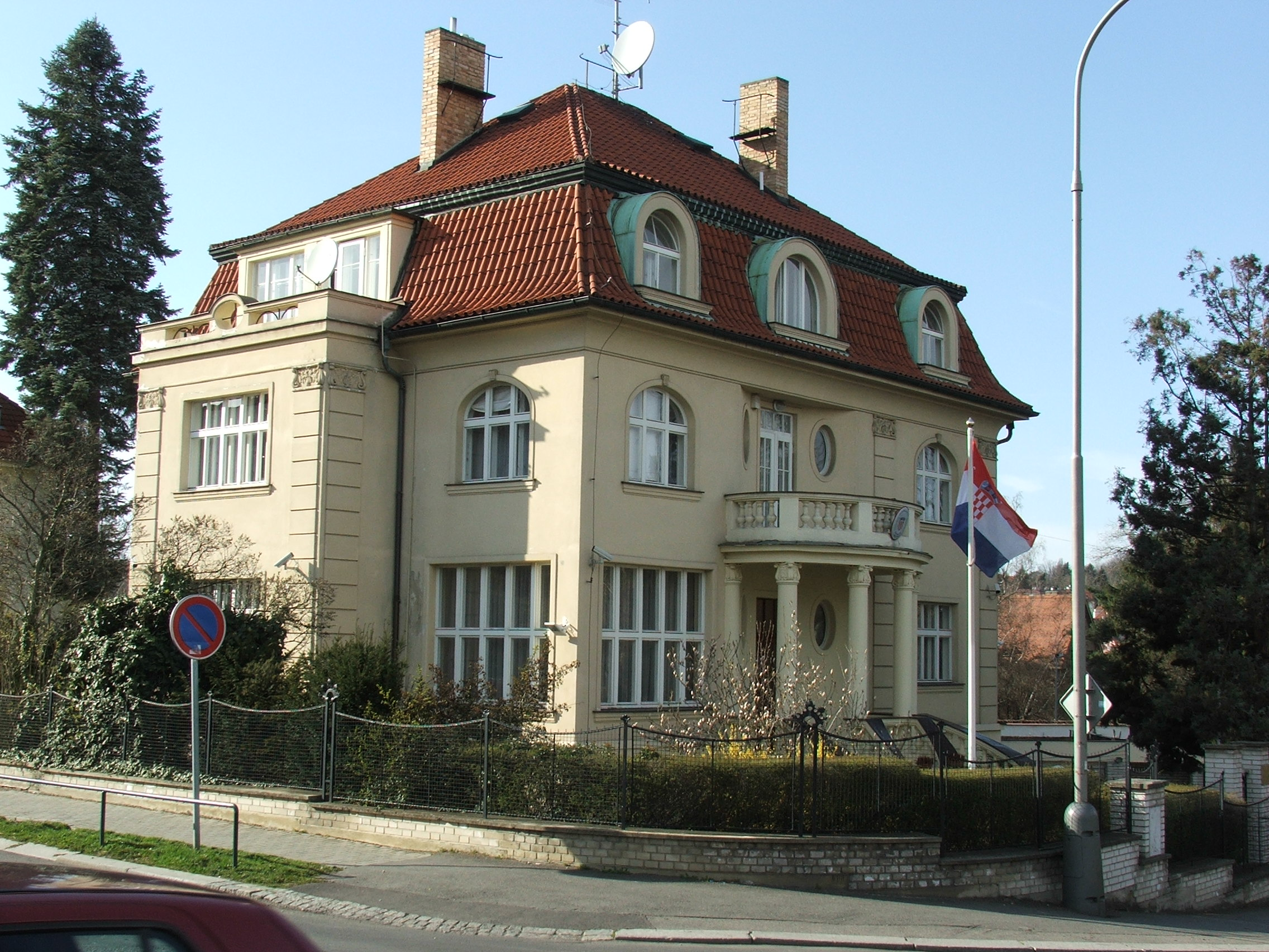 Embassy of Croatia in Prague - Střešovice, Czechia - street V průhledu.